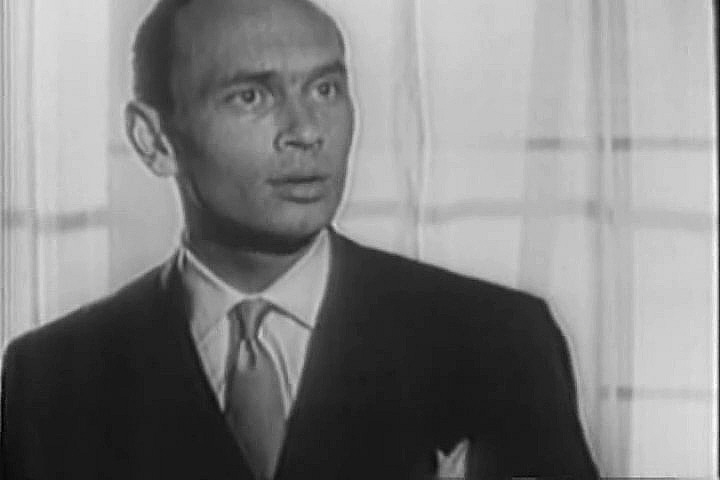 Yul Brynner in Port of New York (cropped screenshot)